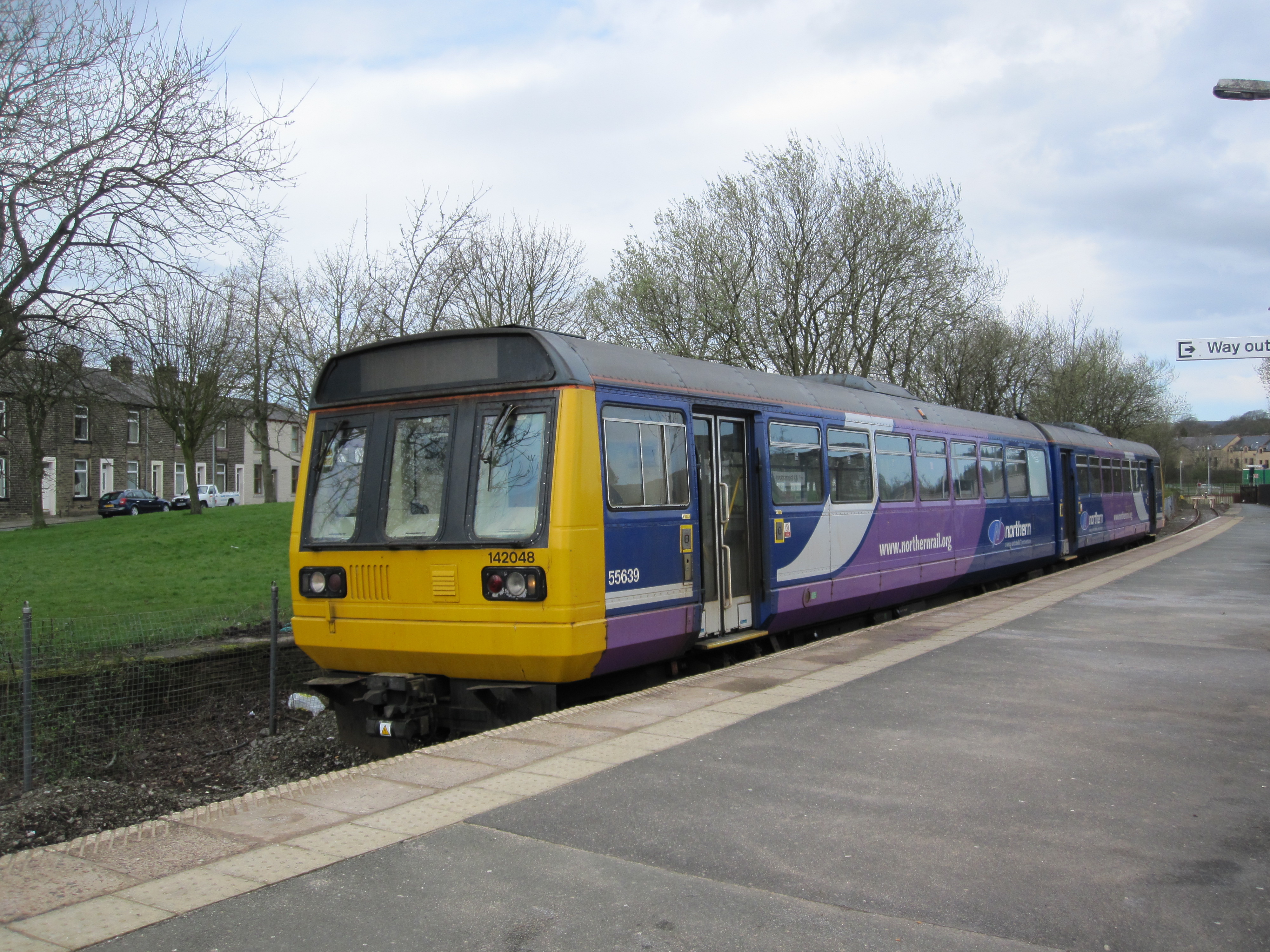 2S17 13:50 Colne to Blackpool South seen on 4 April 2012. Trains on this hourly service are worked by Northern Rail class 142 "Pacer" units.